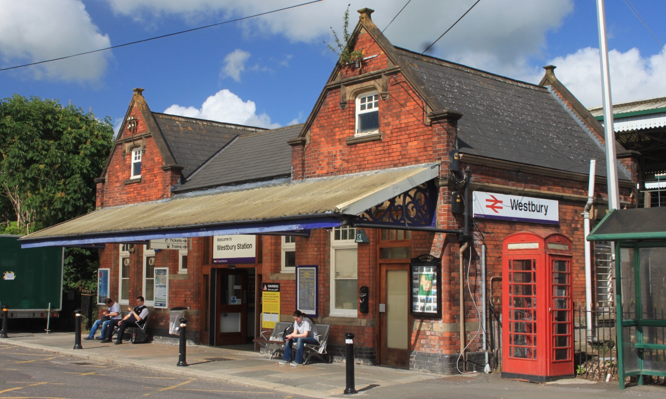 The entrance to the railway station in Westbury, Wiltshire, is on the east side of the line and at road level. A subway leads beneath the tracks to give access to the platforms.